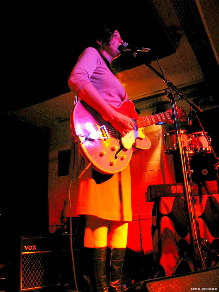 Holly Golightly playing 14.05.05 Gleis 22, Münster